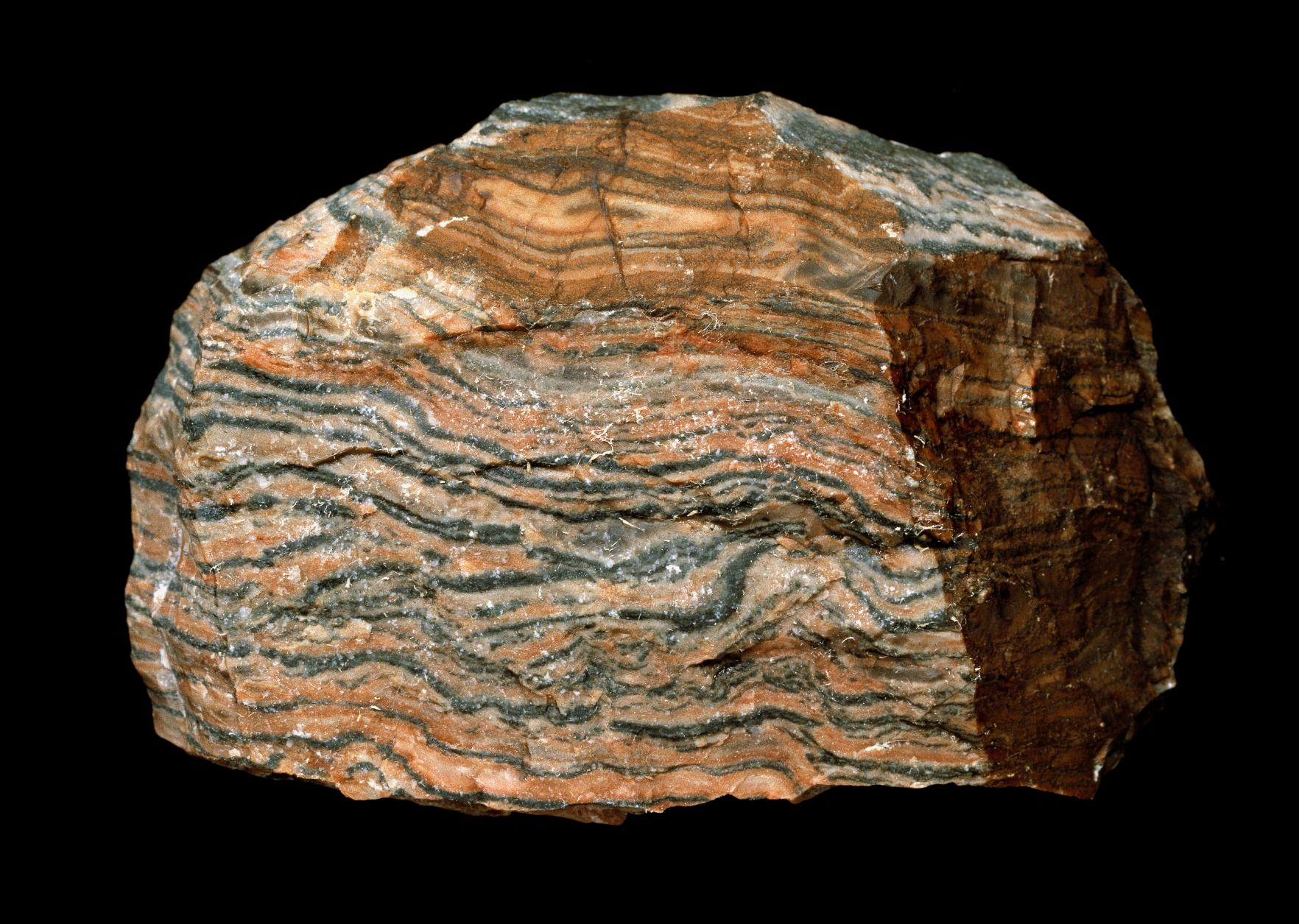 Halleflinta from Uppland in Sweden. The rock was formed about 1900 million years ago as volcanic ash. Halleflinta almost always has a striped appearance. Colours include grey, black, red, white, green, yellow or brown.